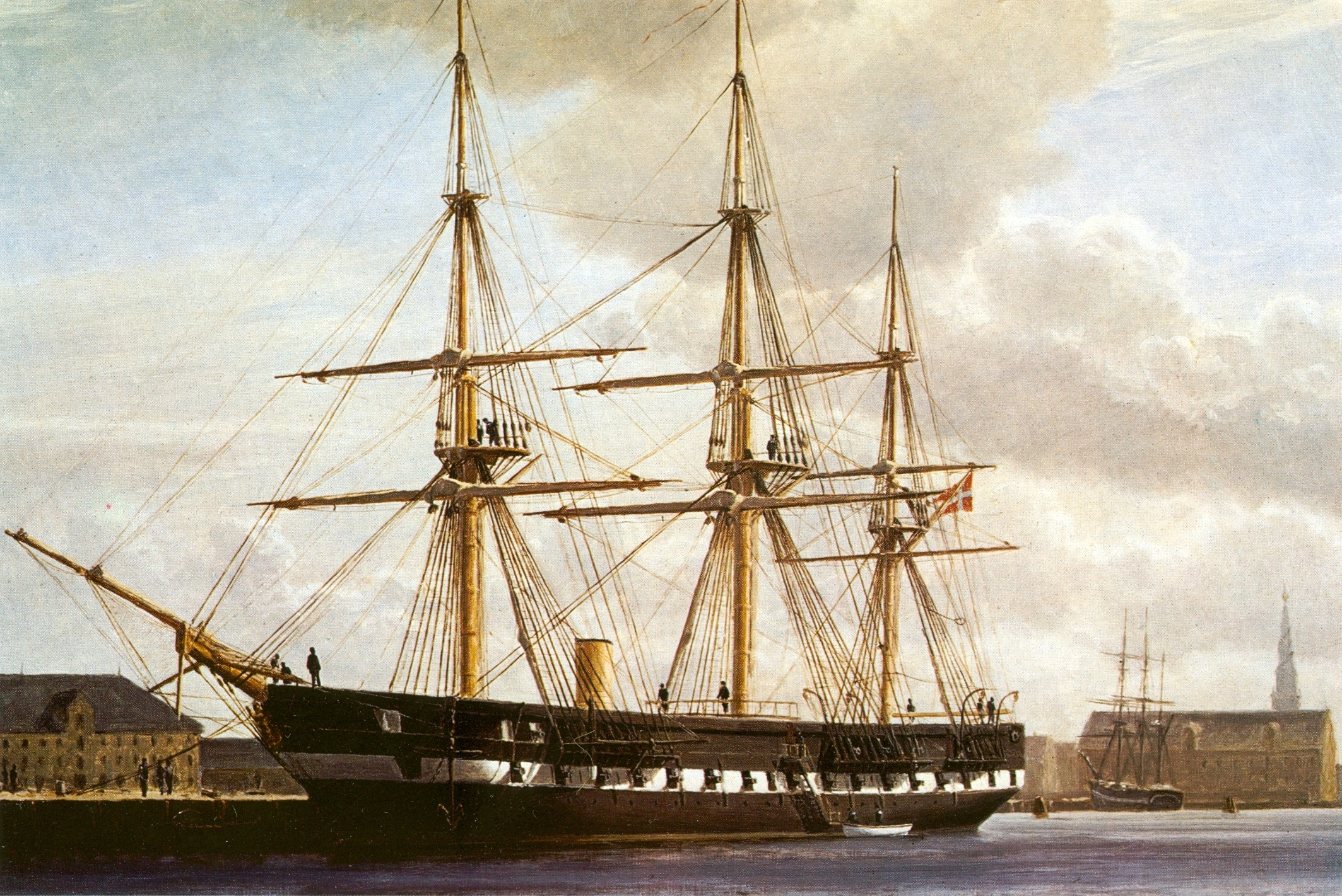 The Danish Frigate Jylland being paid-off at Holmen at the end of a commission.